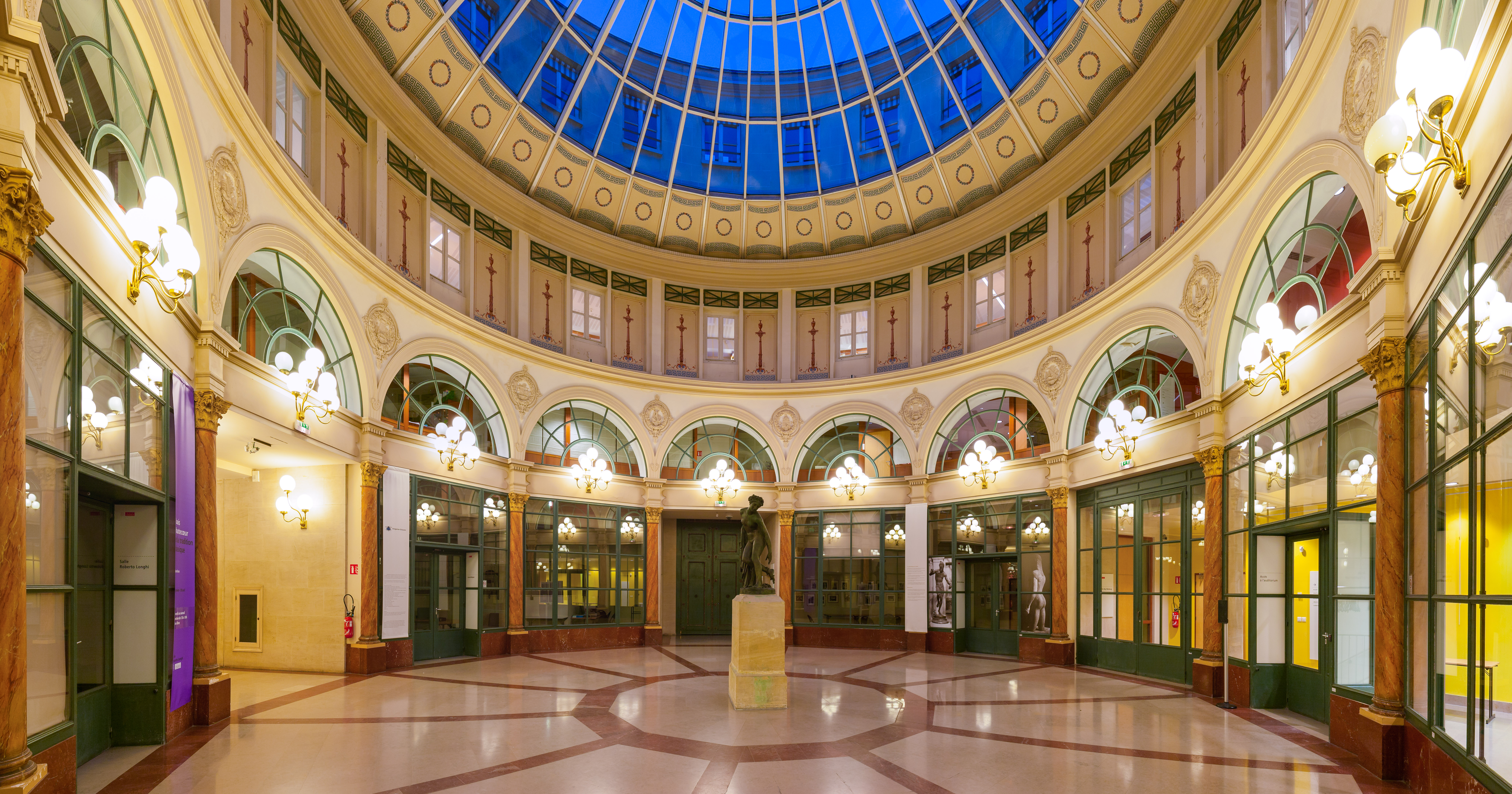 Rotunda of the Galerie Colbert (Colbert Galleria), Paris, 2nd arrondissement. Built in 1826 as a rival to the adjacent and then very popular Vivienne covered passageway, it didn't achieve the same success and was almost abandoned until renovation in the 1980s. Bought by French National Library, the galerie is now home to INHA (Institut National de l'Histoire des Arts, Art History National Institute) and INP (Institut National du Patrimoine, Heritage National Institute).